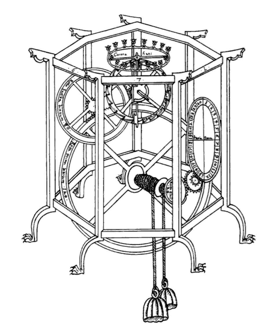 Drawing of the bottom section of Giovanni de Dondi's astronomical clock, the Astrarium, finished 1364, Padua, Italy. This early weight-driven clock kept time with a balance wheel (crown shape, at top) driven by a verge escapement (wheel under it). This is one of the earliest existing drawings of those mechanisms. The balance wheel had a beat of 2 seconds. The actual clock was a lot more complicated than this drawing, which only shows the lower section containing the weights, escapement and main gear train. The upper section, mounted on top of this, had 7 dials, displaying the astrological motions of the Sun, Moon, Mercury, Venus, Mars, Jupiter, and Saturn. See Giovanni De Dondi's Astrarium. Alterations to image: converted to 8 color PNG.